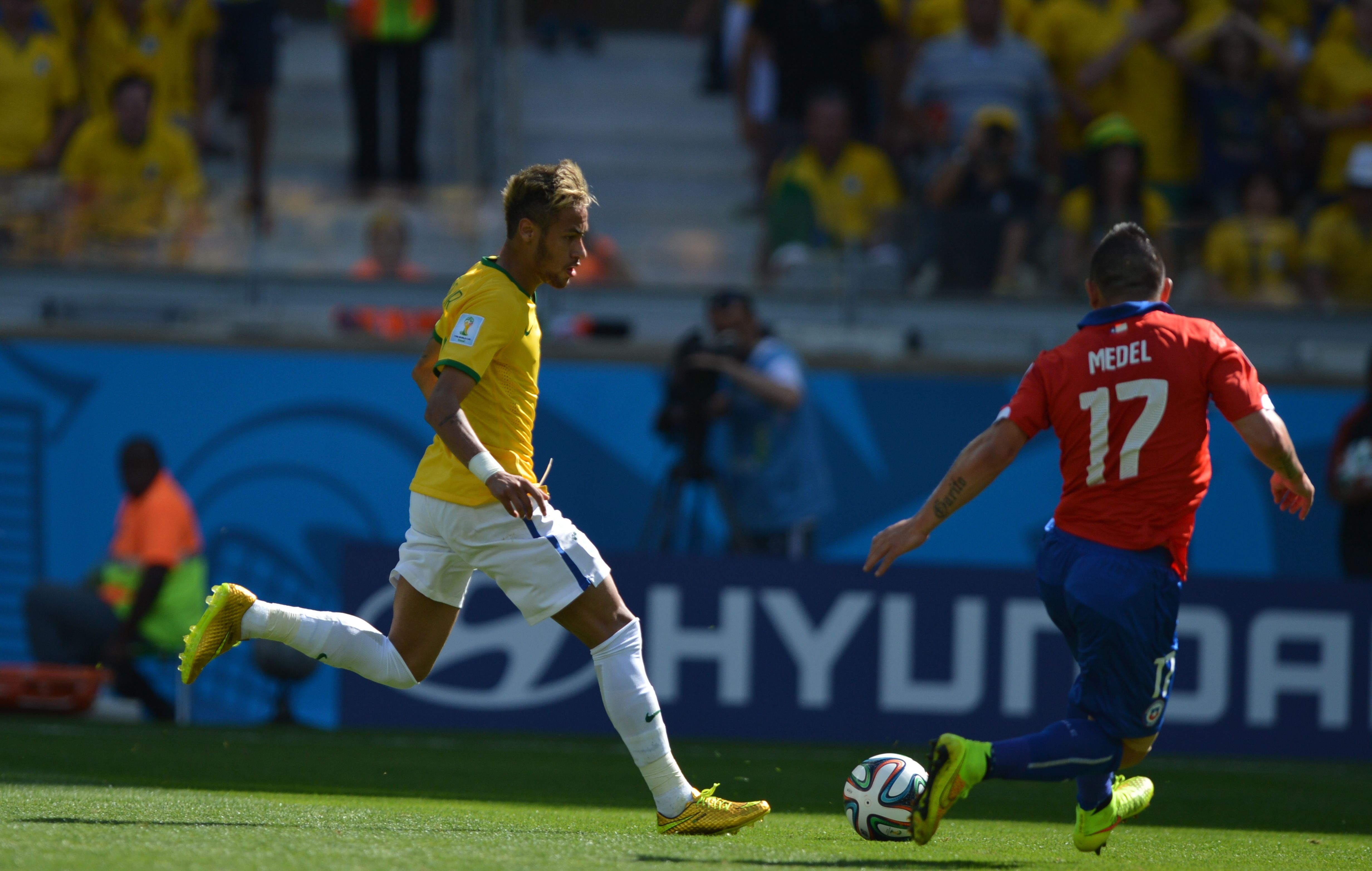 Brazil vs. Chile in Mineirão